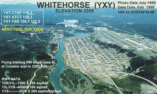 Aerial photograph of Whitehorse International Airport (CYXY) in Whitehorse, Yukon, Canada. Note that photograph was taken in 1990, photograph with overlay data was generated in 1998.